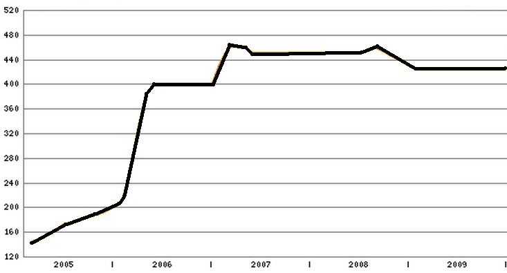 Iridium prices 2005-2009